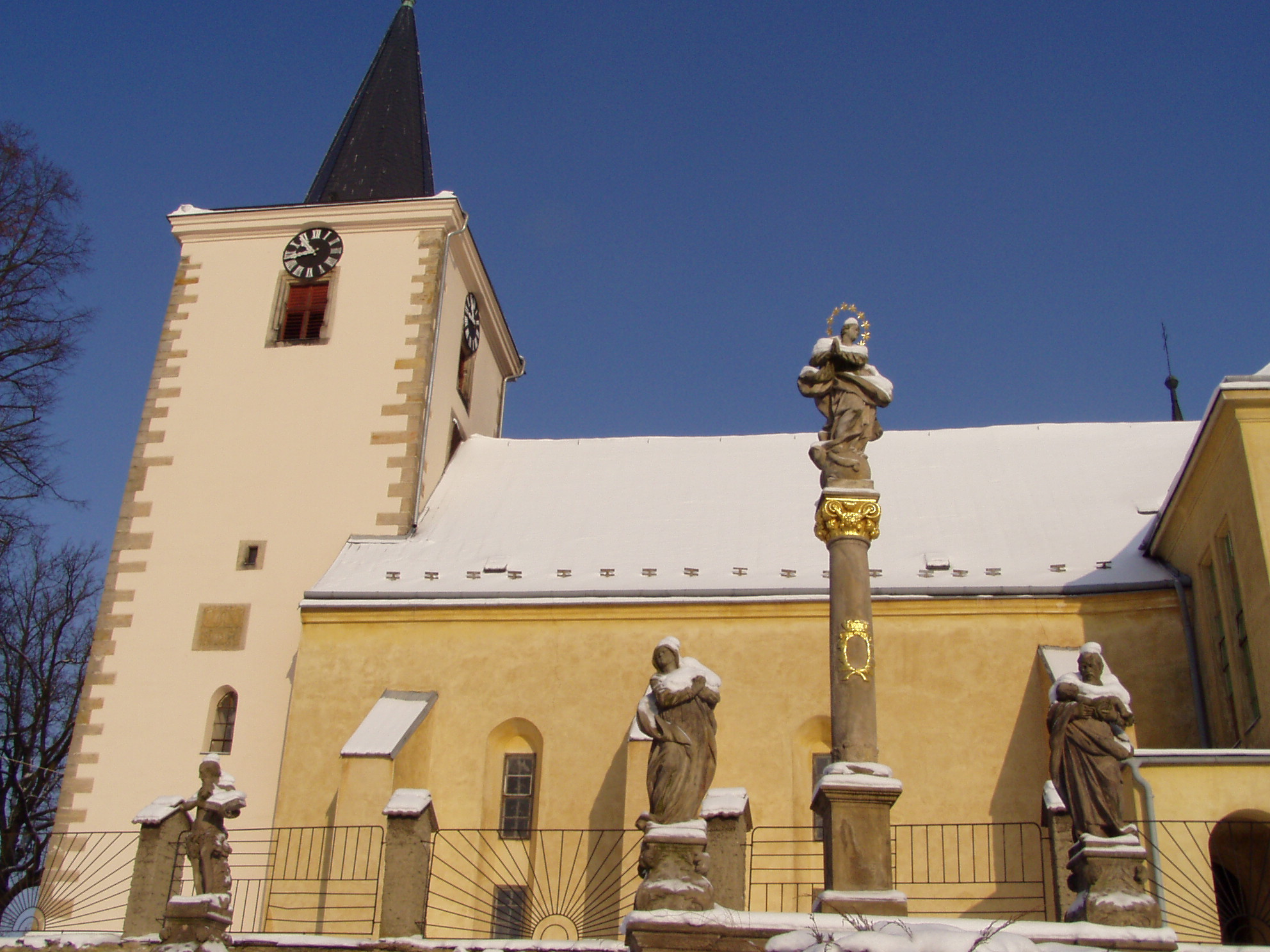 Kunčina - sculpturs 3